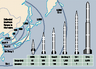 North Korea Theater Missile Threats (adapted from BMDO.) Many NBC proliferators see missiles, and especially ballistic missiles, as the delivery system of choice. As of 1995, more than a dozen countries have operational ballistic missiles, and many more have missile-development programs or agreements to obtain ballistic-missile technology from others. Although most systems available to states seeking WMD capability (sometimes referred to as "proliferant states") are limited to a range of about 600 km, these ranges are increasing steadily. North Korea has flight-tested the 1,000-plus km-range No-Dong 1 and has under development a missile with a range of 3,500-plus km, the Taepo-Dong 2 (TD-2). A number of states are pursuing space-launch capabilities, which can also provide long-range military capability. Cruise missiles are also of growing importance to emerging powers. They are inexpensive compared with ballistic missiles and have increasing capabilities in terms of range, accuracy, and payload.